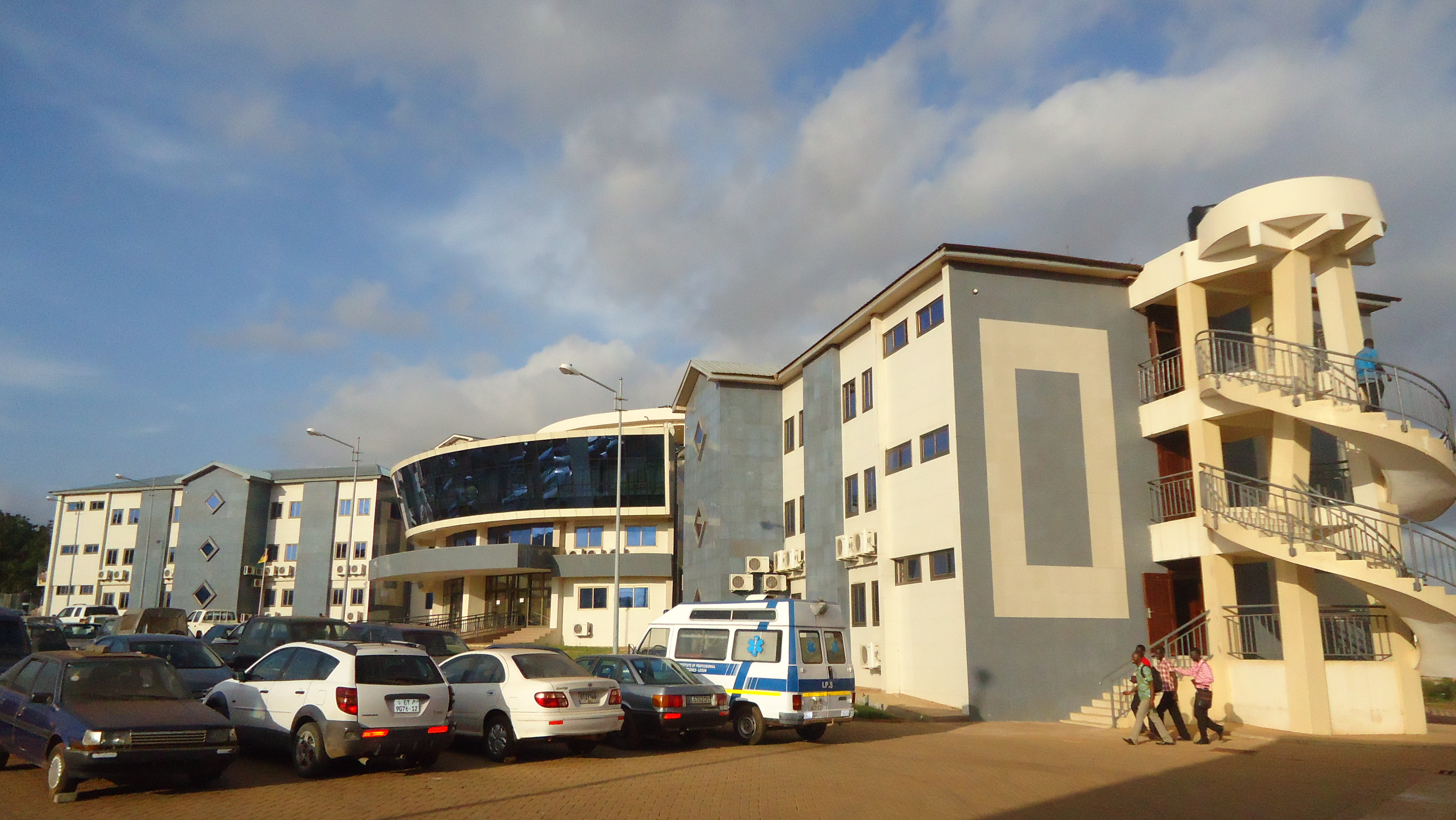 The Institute was founded in1965 as a private Institution and was taken over by government in 1978 by the Institute of Professional Studies Decree, 1978 (SMCD 200). The Institute has been offering tuition for various business professional programmes that are internationally recognized and acclaimed. In this respect, IPS has contributed immensely to the teaching and practice of Accountancy and Management in Ghana. The Institute was subsequently, established as a tertiary institution by the Institute of Professional Studies Act, (Act 566), 1999 with a mandate to provide tertiary and professional education in the academic disciplines of Accountancy, Management and other related areas of study.